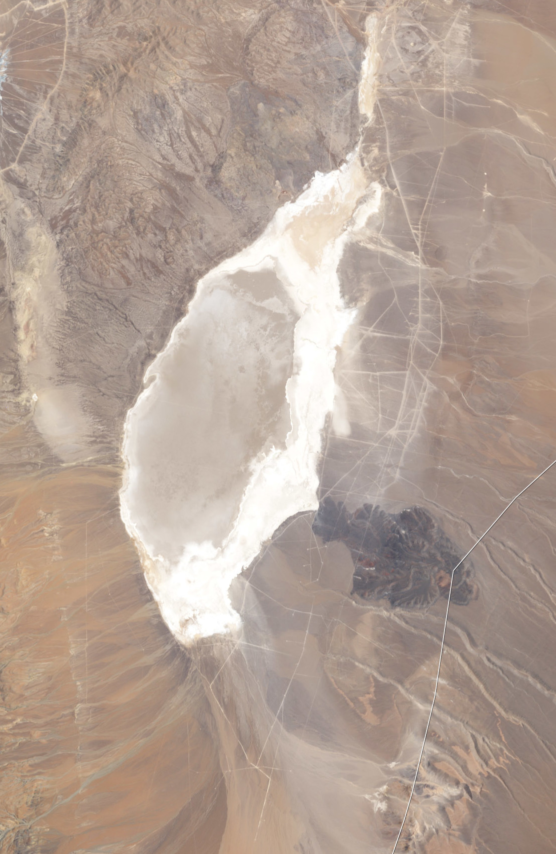 Natural-colour image of Parque Nacional Llullaillaco. Some snow and ice linger on the slopes of Llullaillaco, but little vegetation appears in this landscape. The clearest patch of green occurs in a lake east of the park. This landscape is a combination of mostly bare peaks and salt pans—the large, nearly white areas south and west of the volcano.